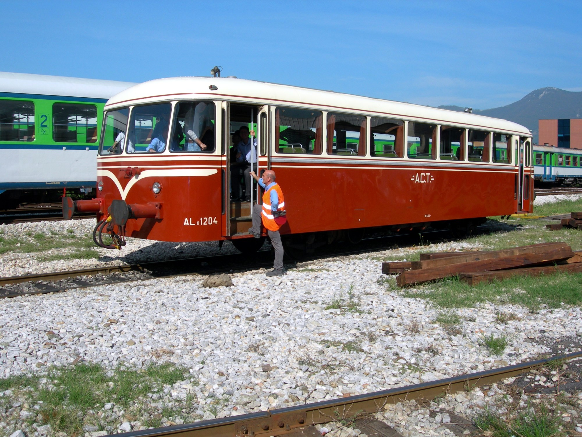 Schienebus Macchi ALn 1204 ex ACT, acquired by Ferrovie del Basso Sebino